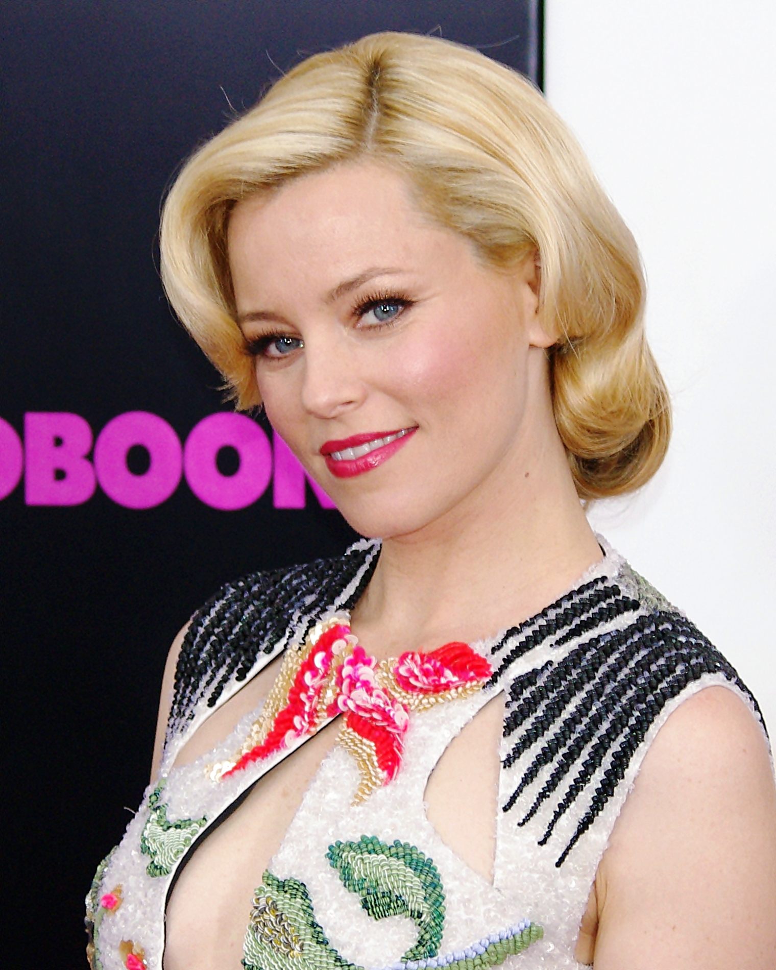 Elizabeth Banks at the 2012 premiere of What to Expect When You're Expecting in New York